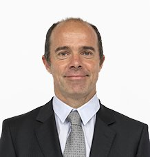 Official photo of Guillermo Rolando as Undersecretary of Housing and Urbanism in 2018